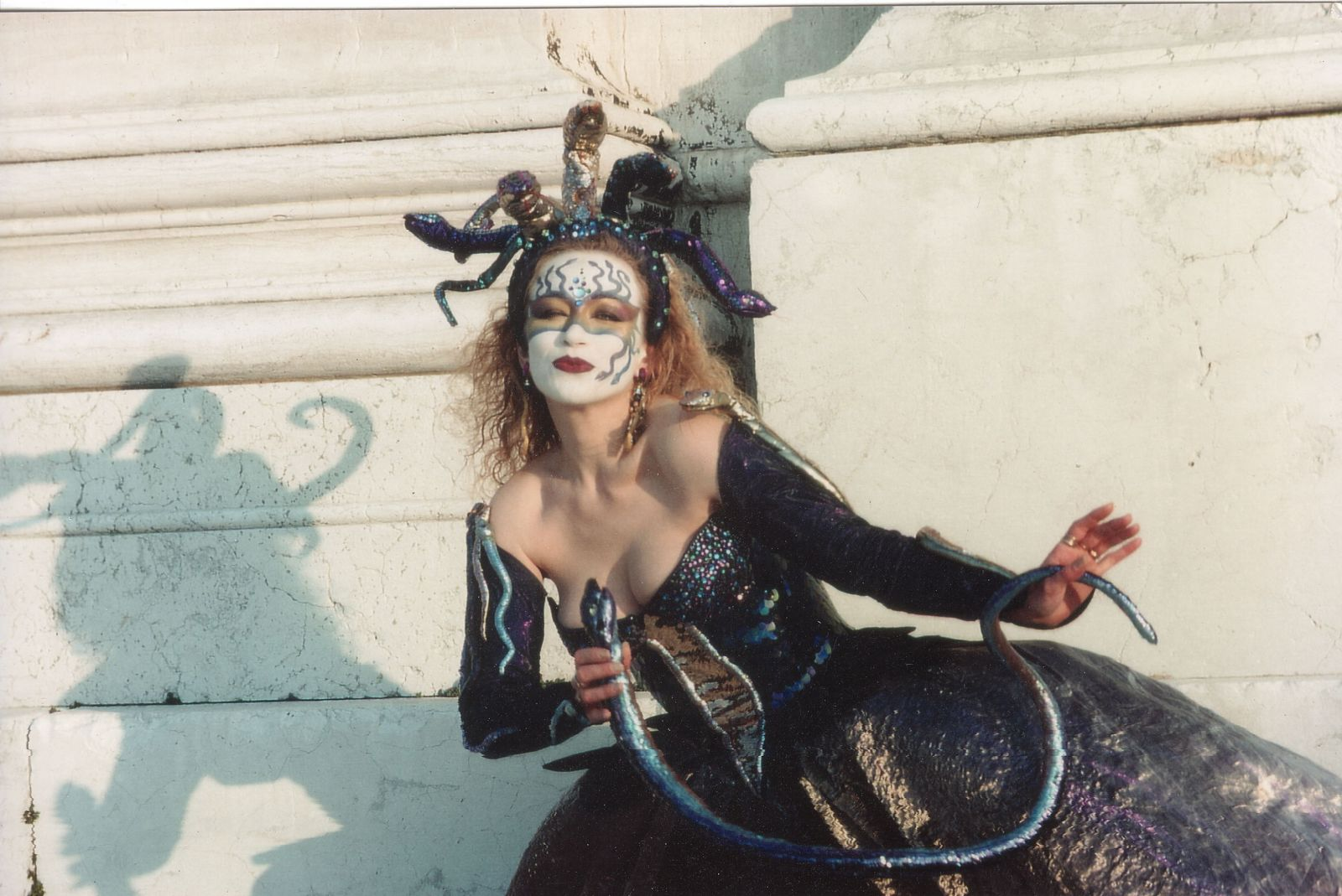 French costume designer Caroline Barral